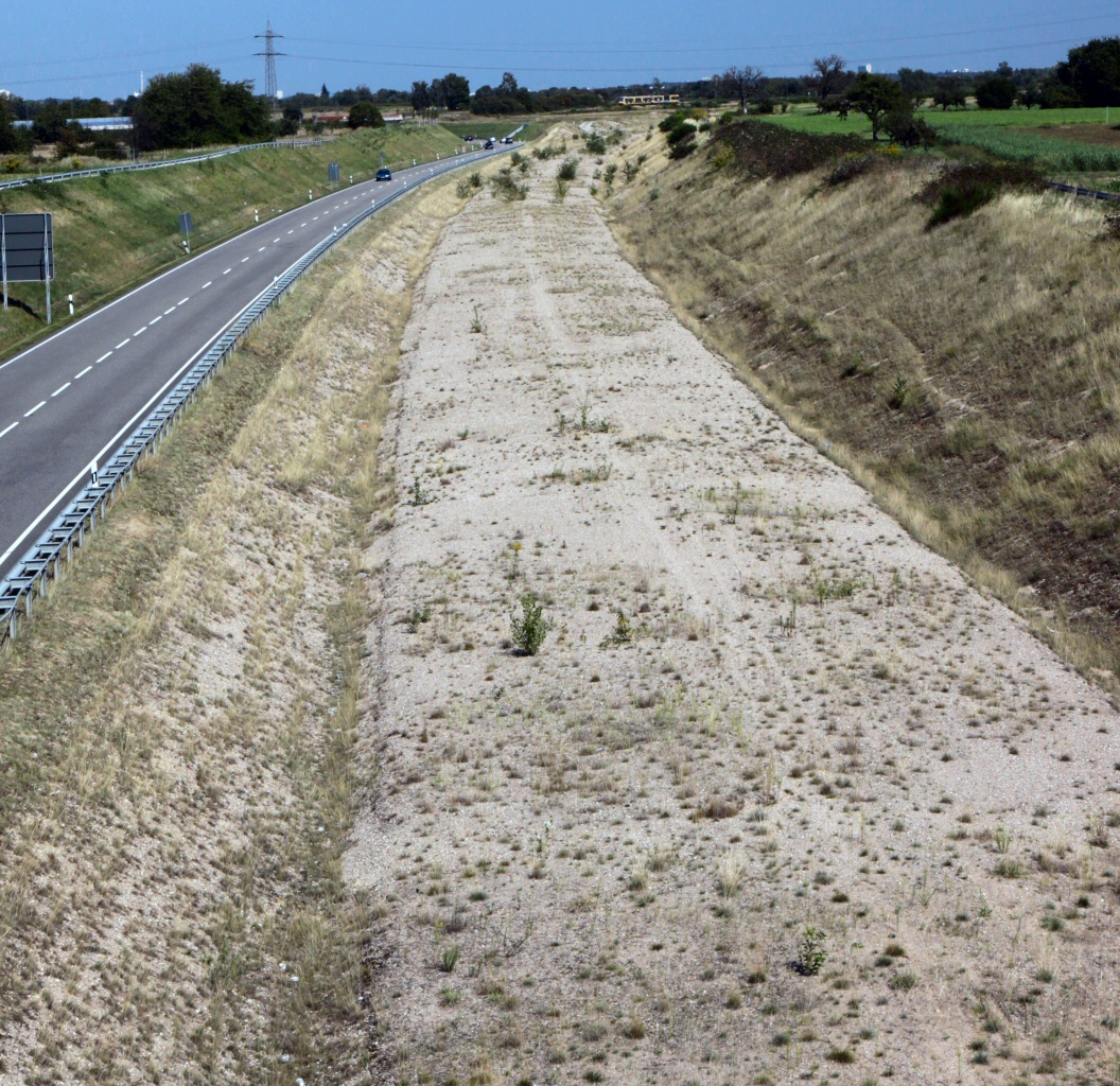 The route of the planned new-build Karlsruhe–Rastatt South train line; view of the ramp up to the existing train line near Durmersheim